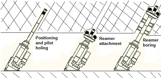 raised bore Other information NA